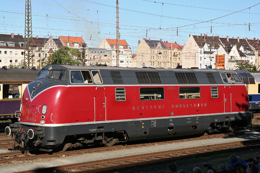 A DB class V200 (200 033) at the freight railway station in Fürth